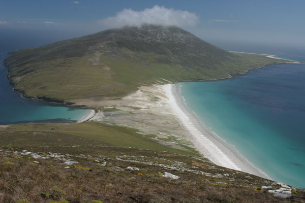 "The Neck" on Saunders Island.